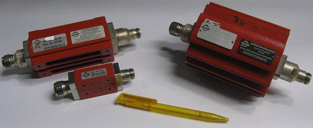 Three RF Attenuators from Spinner, using N connectors. From left to right: 30dB/50W ; 10dB/15W ; 30dB/100W.